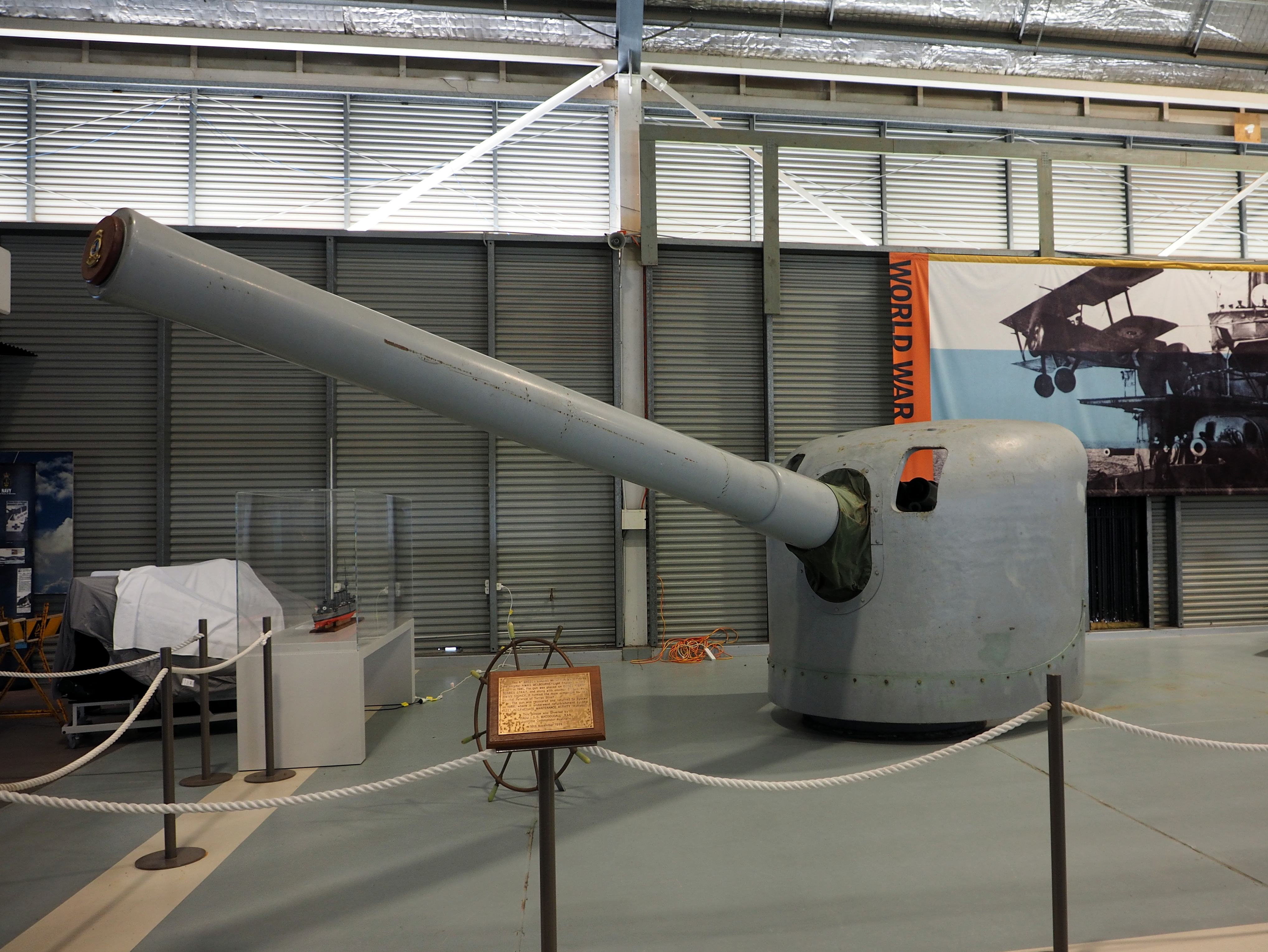 One of HMAS Melbourne's 6-inch guns on display at the Fleet Air Arm Museum. After the ship was decommissioned, this gun was emplaced in the Torres Straits islands until being transported to Nowra and restored for display